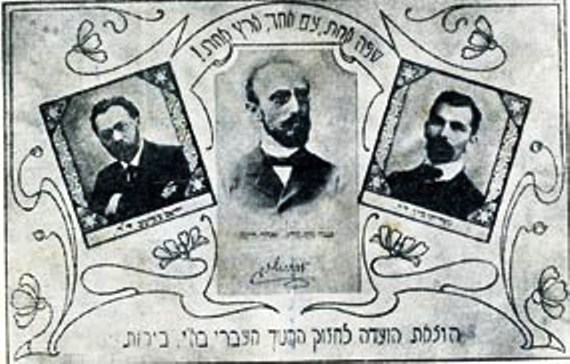 Technion History Archives